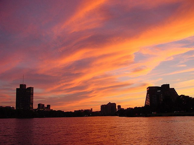 Sunset over the Charles River, Boston, Massachusetts in August 2000.